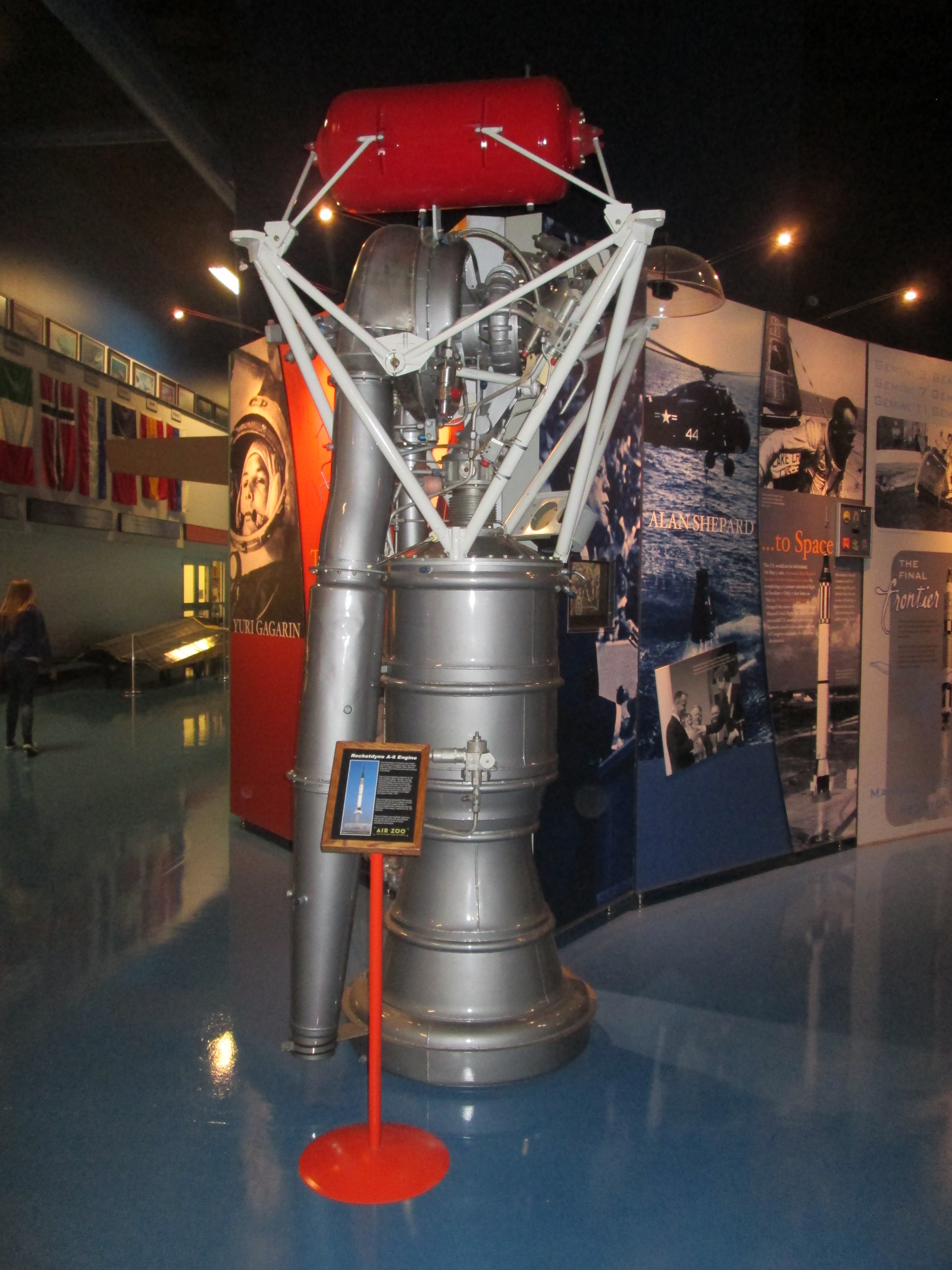 Rocketdyne A-7 rocket engine used in the Redstone rockets, on display at the Air Zoo, Kalamazoo, Michigan. The museum sign describes this as an A-6 engine but the nameplate includes an A-7 serial number